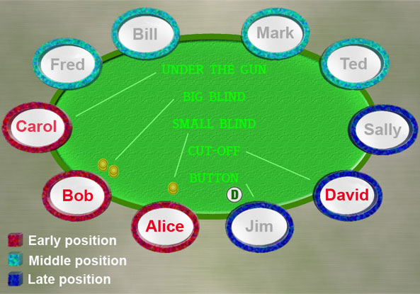 Example of position in texas holdem